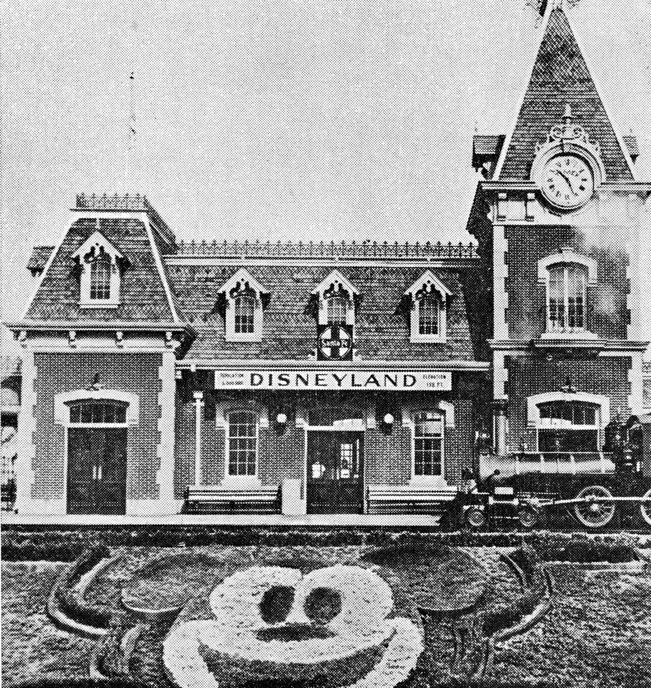 Entrance to Disneyland